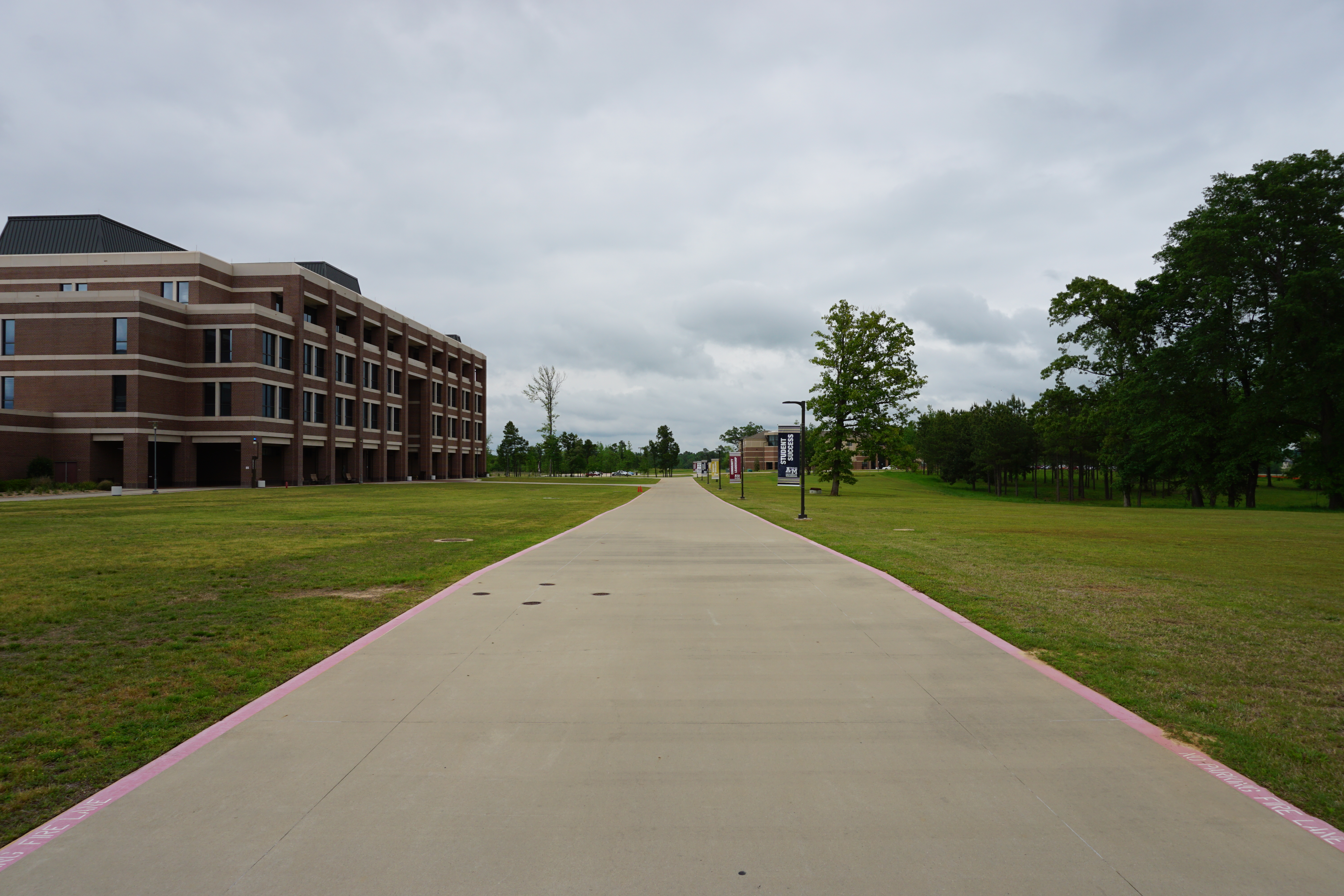 The campus of Texas A&M University–Texarkana in Texarkana, Texas (United States).